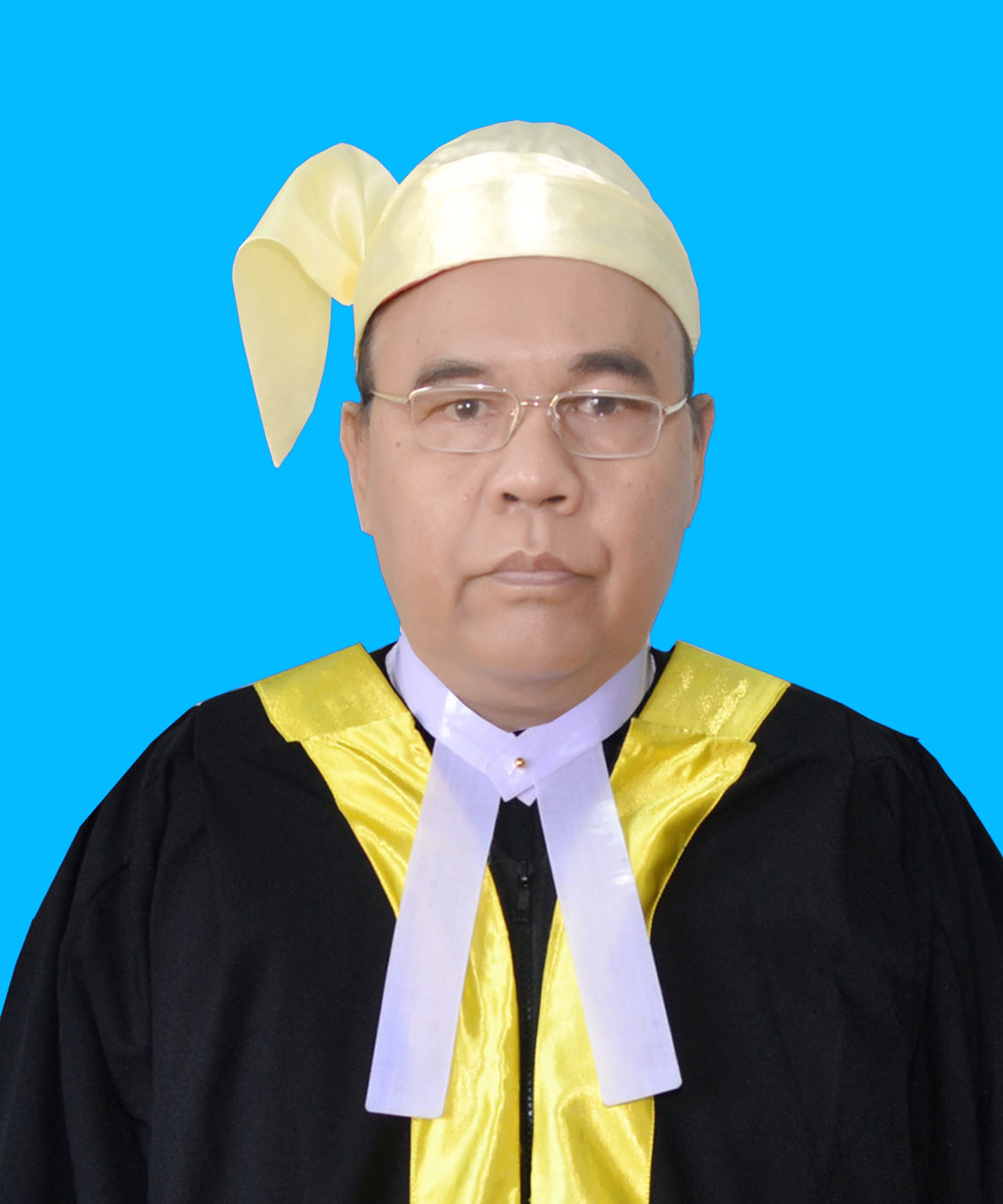 မြန်မာဘာသာ: This is U Mya Thein's photo.